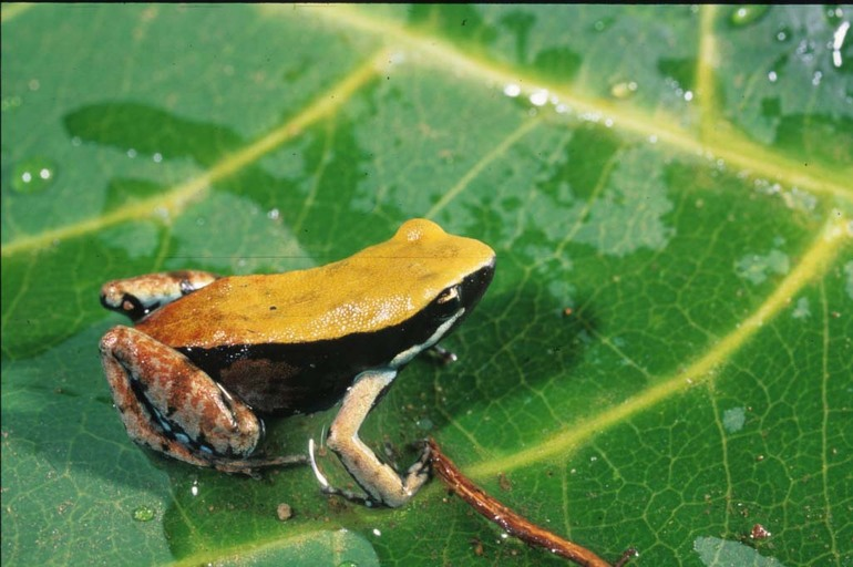 Mantella aff. expectata, the so-called "desert mantella", of arid regions in southernmost Madagascar, this individual from Ampanihy. The taxonomic position of this form is unresolved, but it is associated with the true M. expectata. It should not be confused with the population living immidiately south of Isalo National Park, sometimes referred to as Mantella cf. expectata.